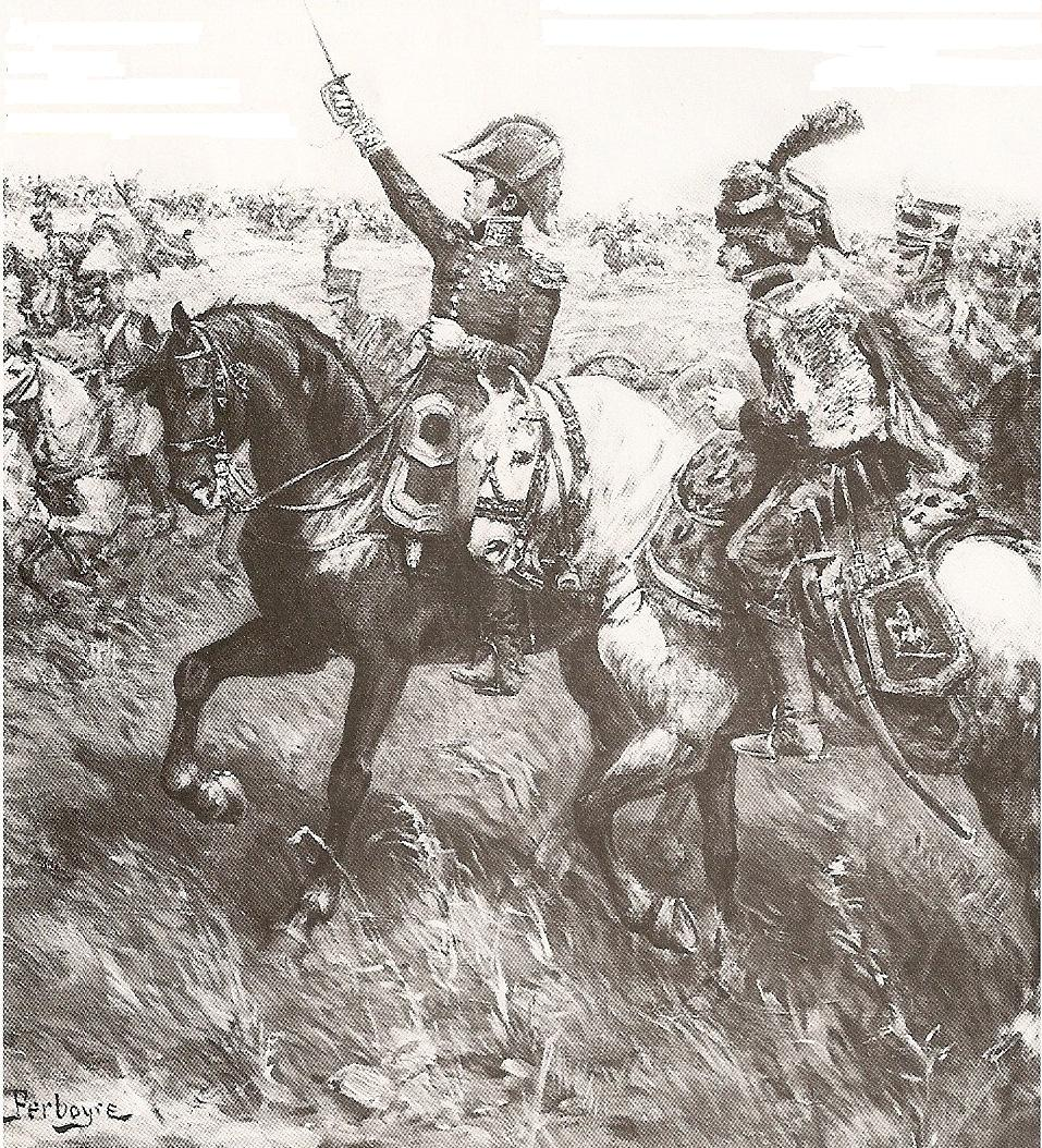 The general Antoine Drouot at the Battle of Wagram